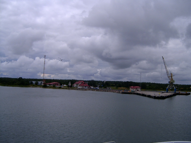 Harbour of Hiiumaa, Estonia